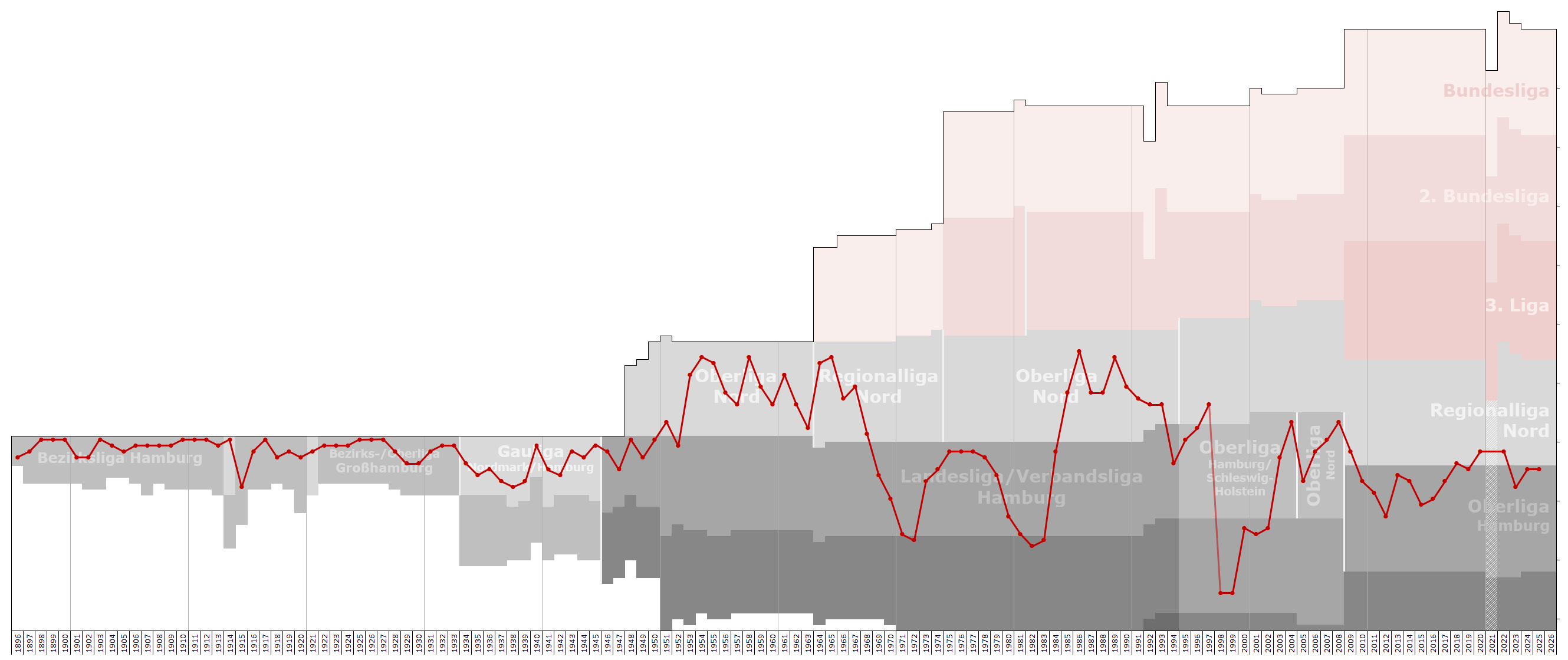 Chart of end-season table positions of Altona 93 in the football league system of Germany. Data source: RSSSF, wikipedia, f-archiv.de, fussball.de